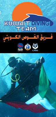 kuwait dive team banner